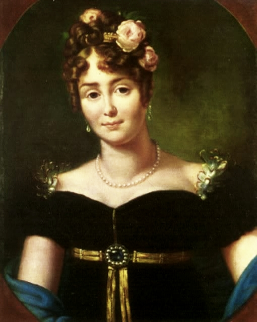 Portrait of Marie Łączyńska, Countess Walewska